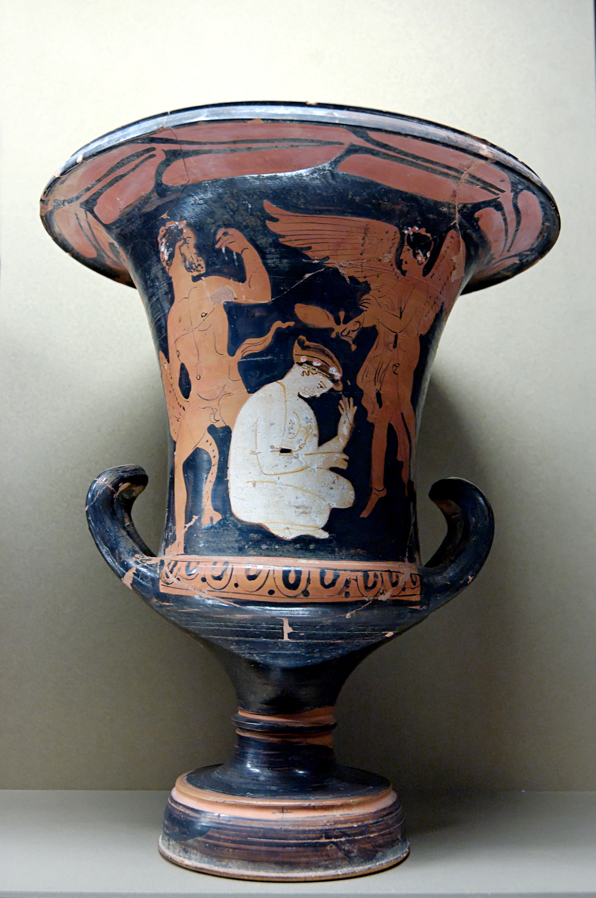 Woman bathing, surrounded by a Silen and Eros. Side A from an Attic red-figure calyx-krater in the Kerch style, ca. 375–350 BC. From Boeotia.